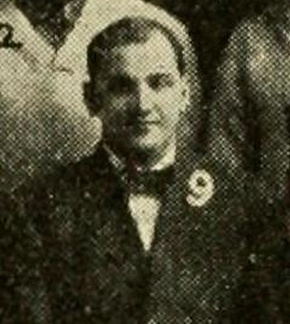 AR Kennedy, Univ of Kansas